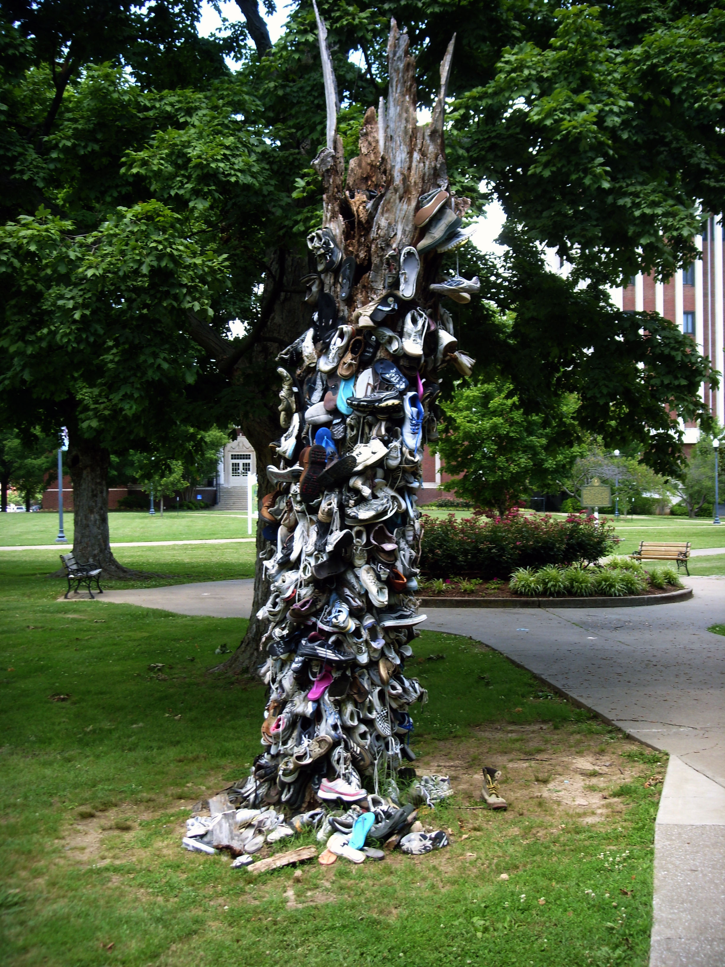 The Shoe Tree at Murray State University